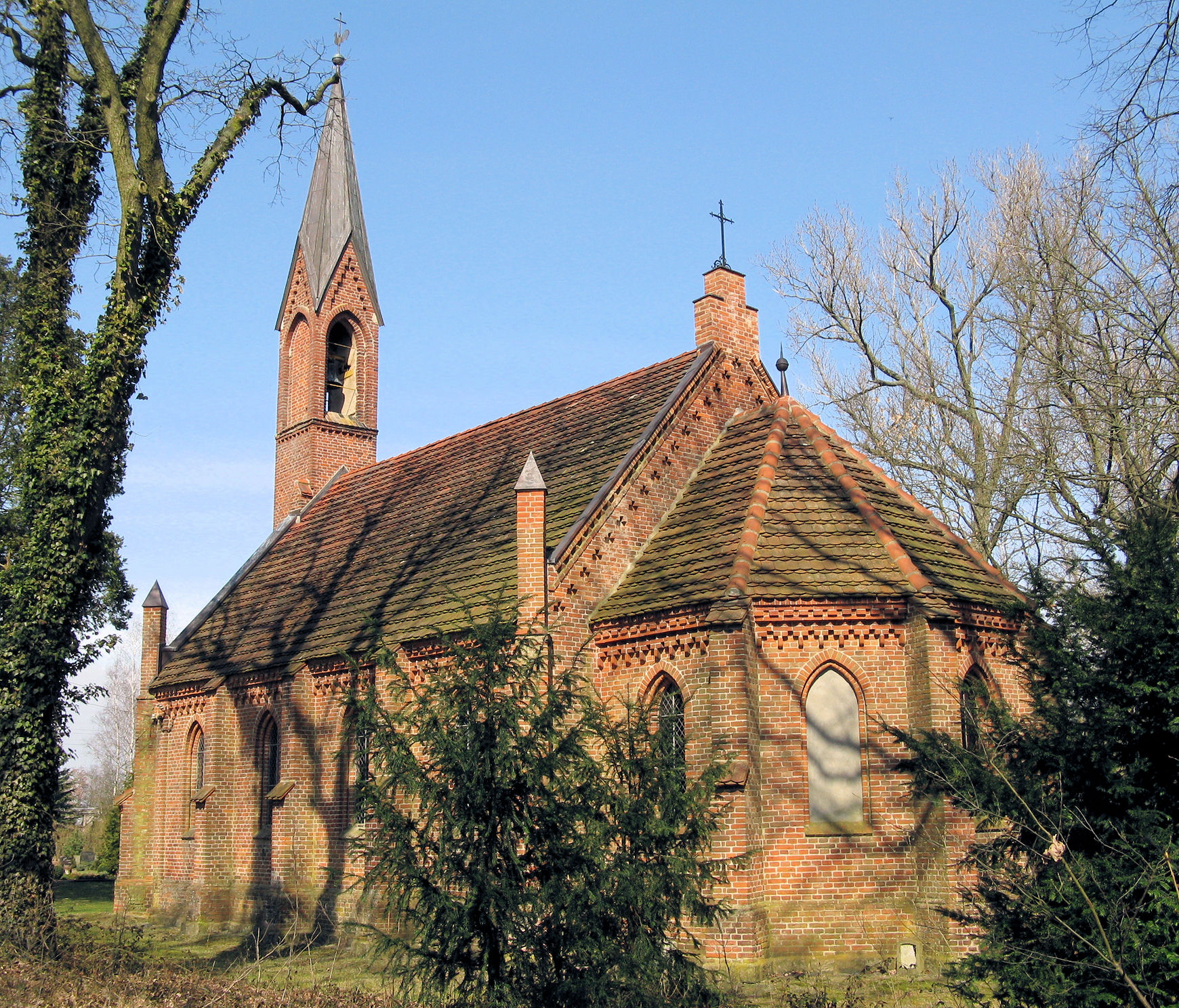 Church in Sülte, district Ludwigslust, Mecklenburg-Vorpommern, Germany